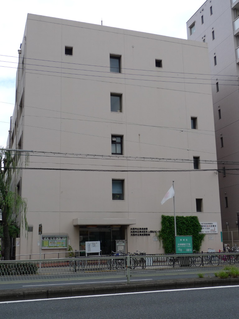 Photo of Higashinari Library in Osaka City